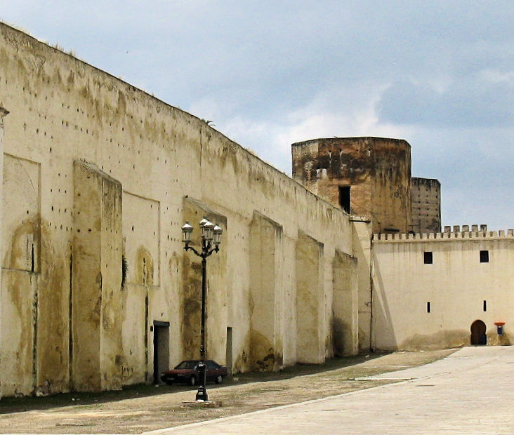 West wall of the New Mechouar, which integrates the remains of the old Marinid aqueduct: if one looks closely, the semi-circular outlines of its former arches are visible inside the wall. The projecting piers are also likely from the aqueduct. The octagonal towers of Bab Segma are visible at the end: the dark rectangular opening is presumed to be where the aqueduct passed inside the towers.